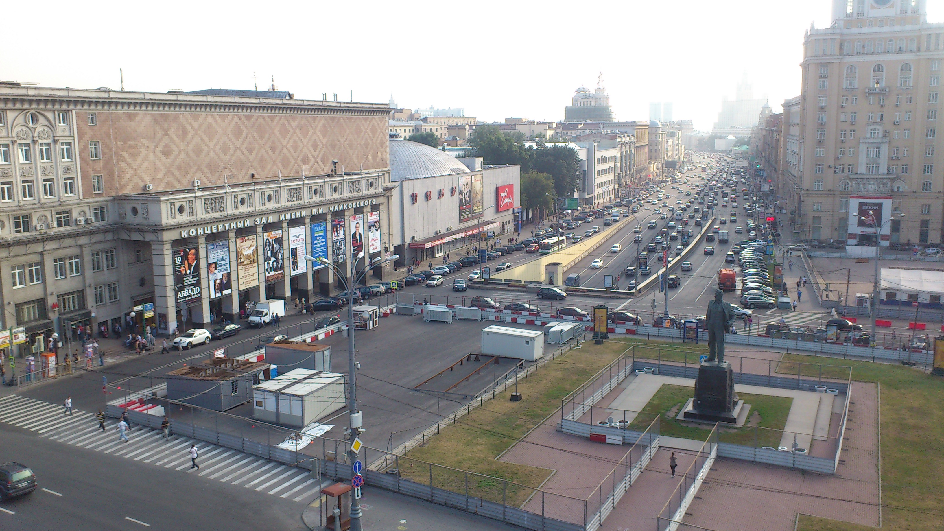 Tverskoy District, Moscow, Russia - Triumfalnaya Square